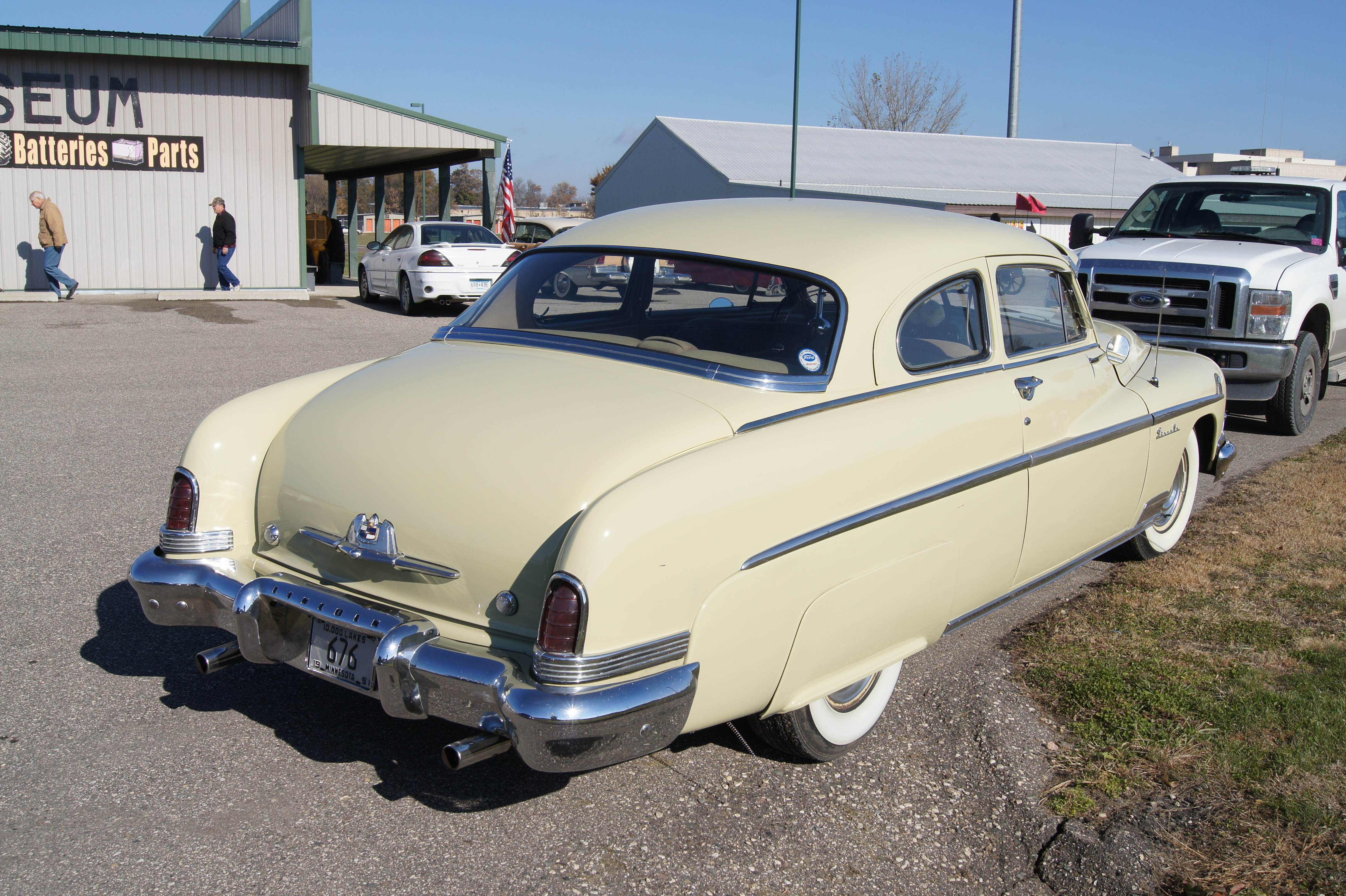 Car Buff's Breakfast November 2013 Kandi Entertainment Center Willmar Minnesota Click link below for more car pictures: The 2013 Car Buffs' Breakfast season went out with with a bang. Nice weather, visitors from the Wright County Car Club and a late start to the Deer Hunting Season helped push attendance over 80 when the club was expecting 60. Kandi Entertainment Center did an admirable job coping with the extra people. Attendees had an opportunity to see Mr. Theis's collection of Motorcycles and exciting Rat Rods. Then the Schwanke Tractor, Truck & Car Museum opened for viewing another great collection.